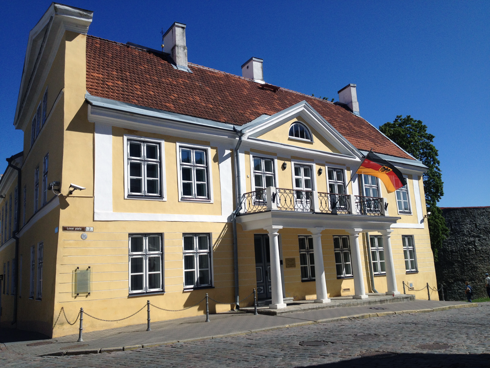 Residence of the German Ambassador in Tallinn